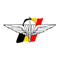 Belgian Paracommando Brigade Official Logo